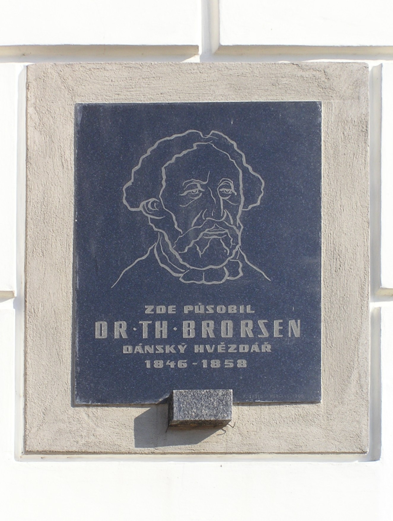 Plague of Theodor Brorsen (Danish astronomer) in Žamberk